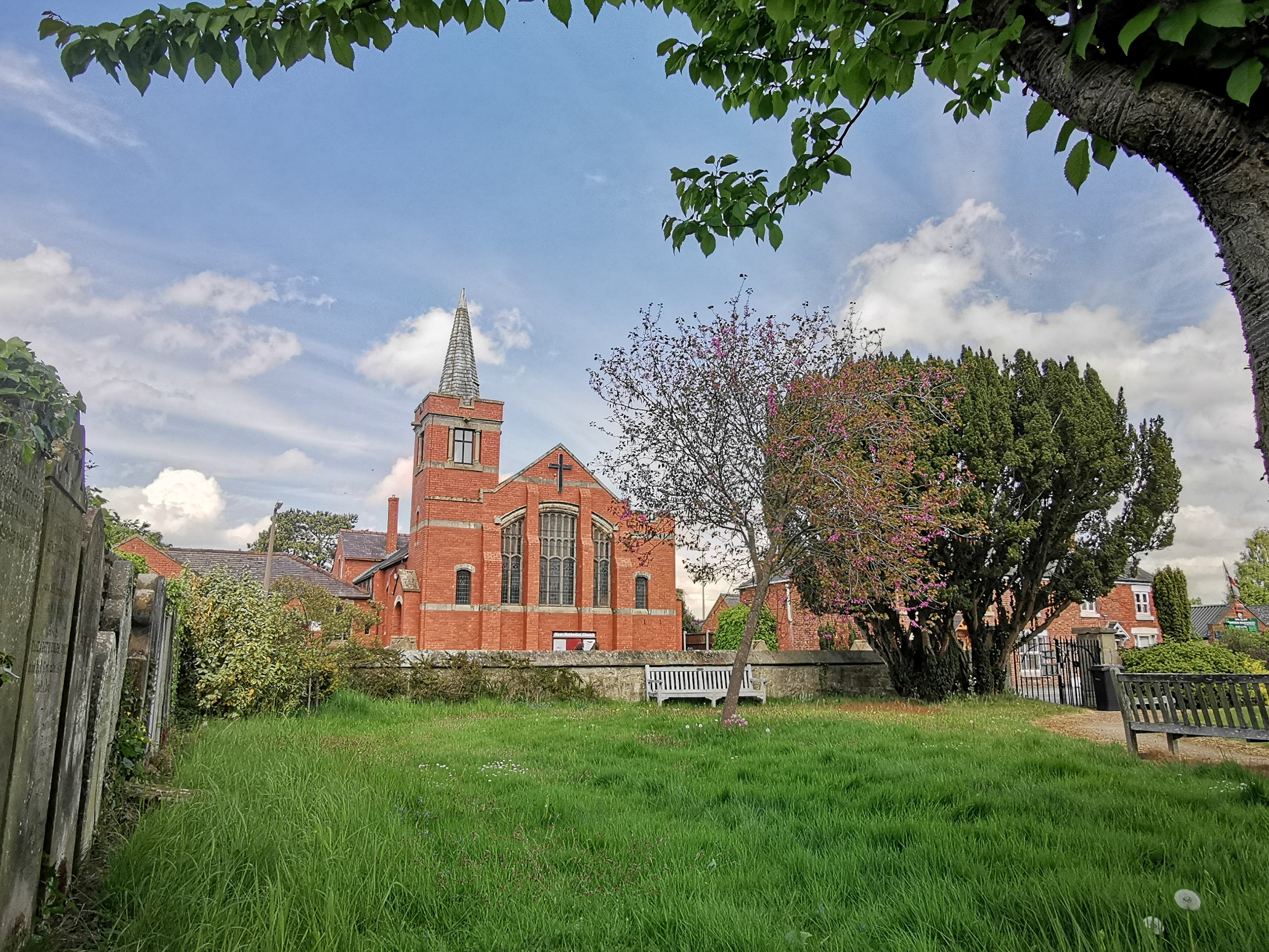 Methodist Church in Wem